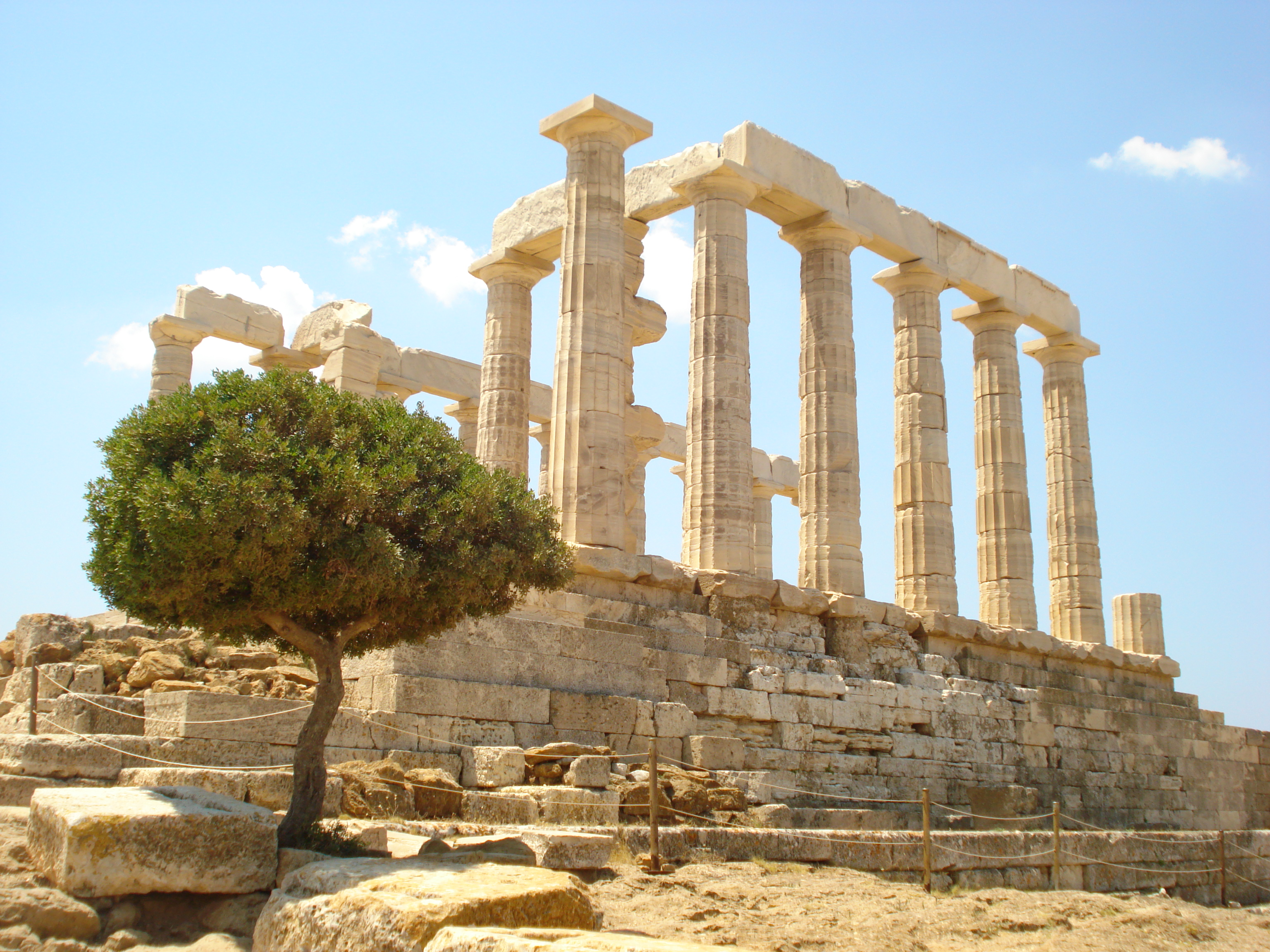 Temple of Poseidon at Cape Sounion, July 2010.